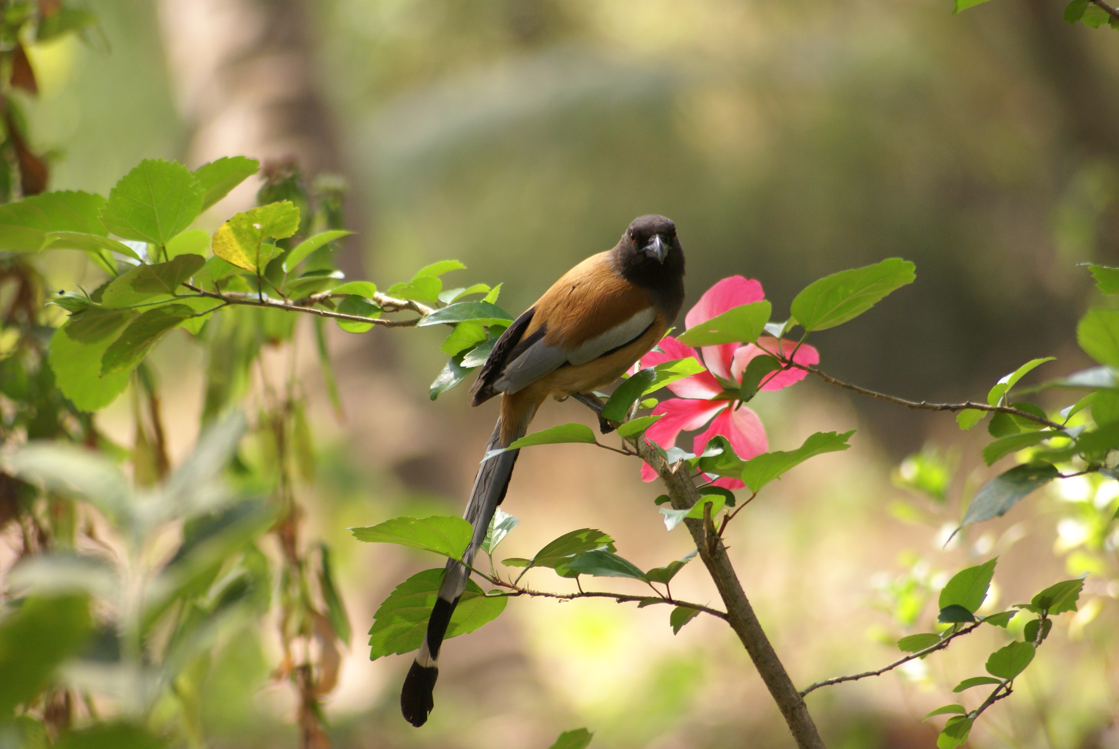 Rufous Treepie (Dendrocitta vagabunda) in Calicut-Kerala-India.